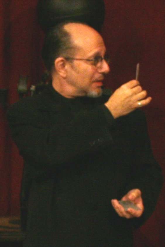 American magician and mentalist Max Maven, out of character, performing an ESP card trick.